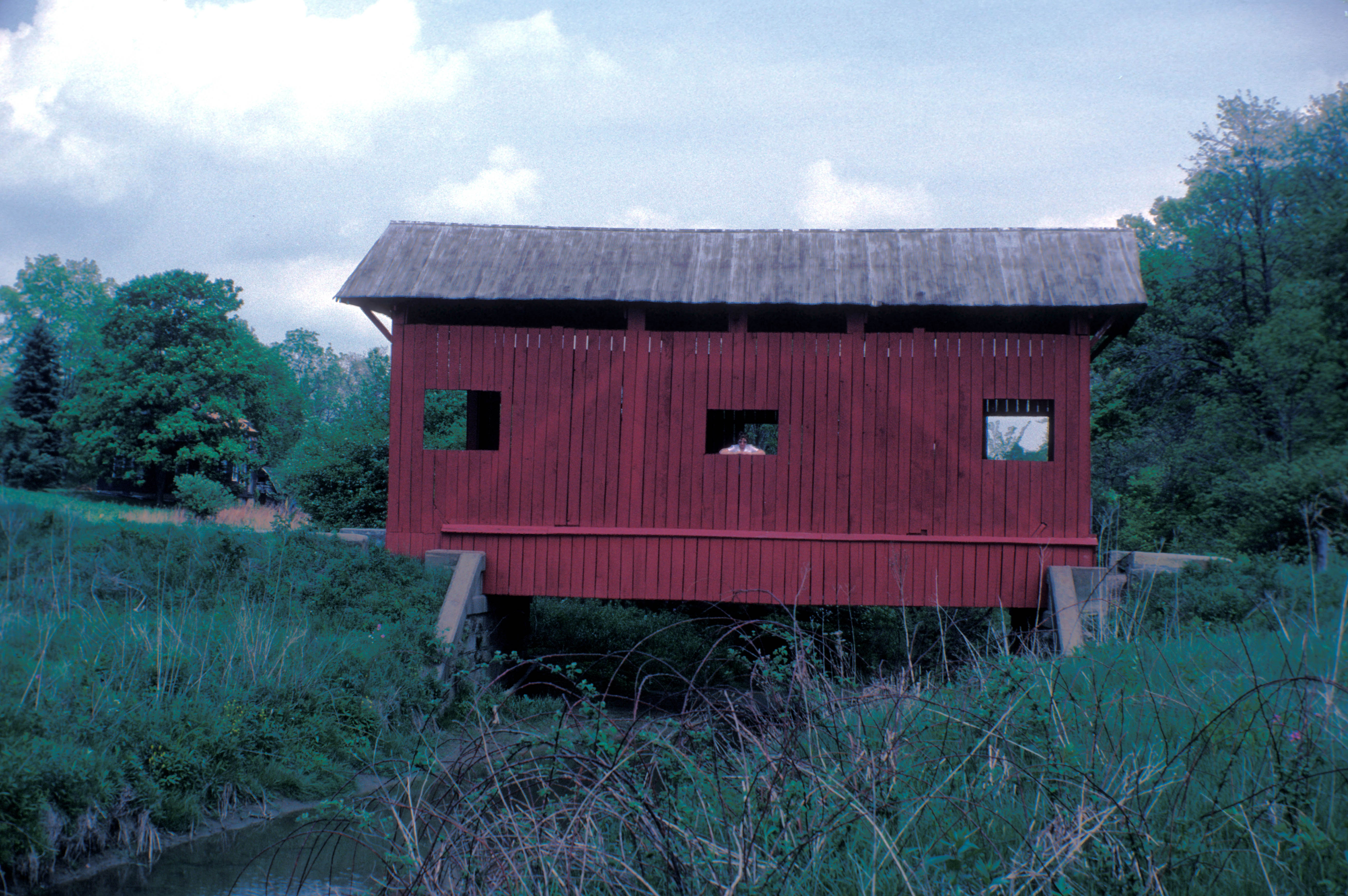 Wilson's Mill Covered Bridge OVER CROSS CREEK in Avella, Pennsylvania, USA; 40’ QUEEN